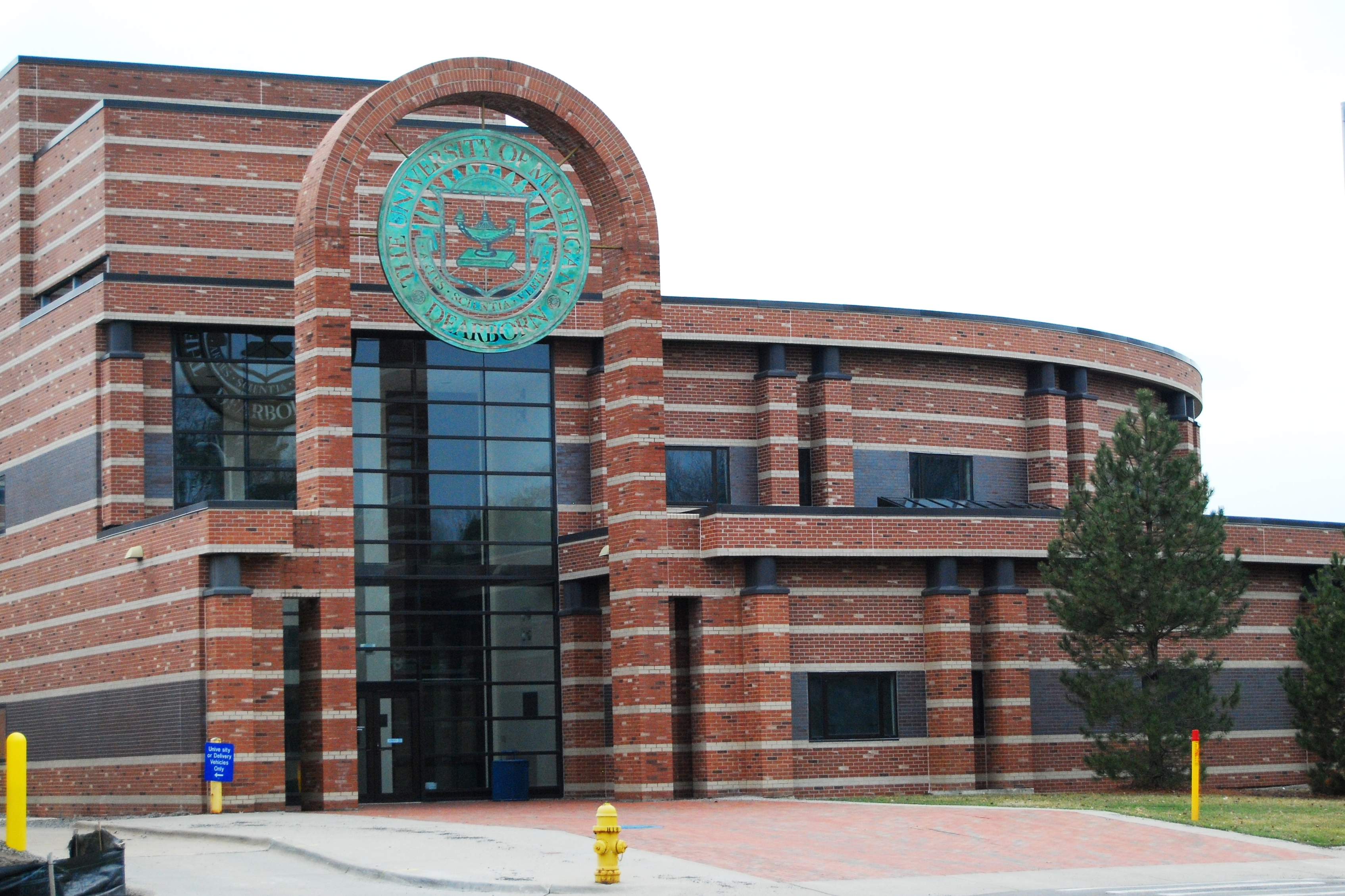 University of Michigan-Dearborn, engineering building